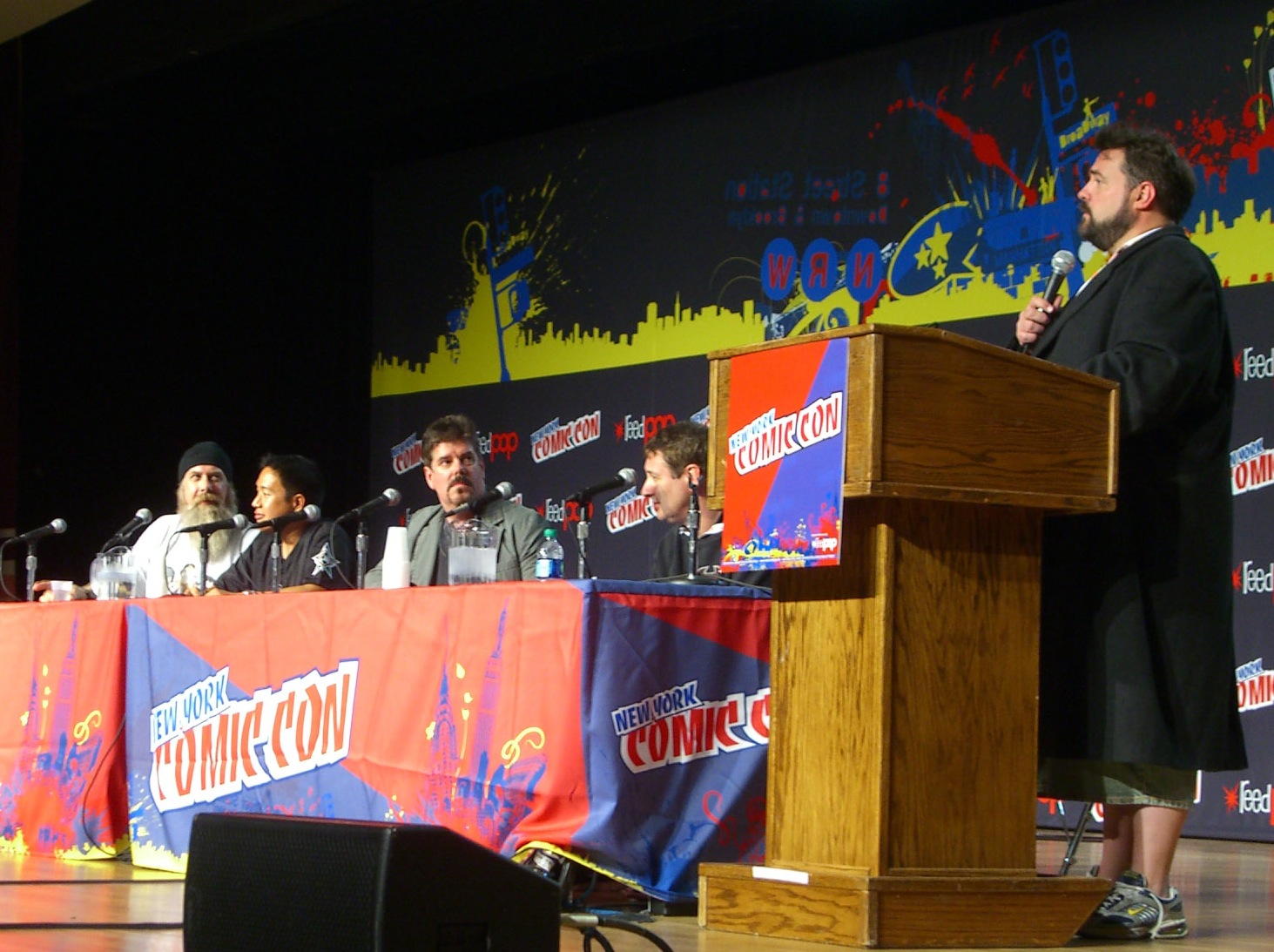 The Comic Book Men panel discussion at the IGN Theater on Day 2 of the 2012 New York Comic Con, Friday October 12, 2012 at the Jacob K. Javits Convention Center in Manhattan. From left to right: Bryan Johnson, Ming Chen, Mike Zapcic, Walt Flanagan and at the podium, writer/director Kevin Smith. This photo was created by Luigi Novi. It is not in the public domain, and use of this file outside of the licensing terms is a copyright violation.